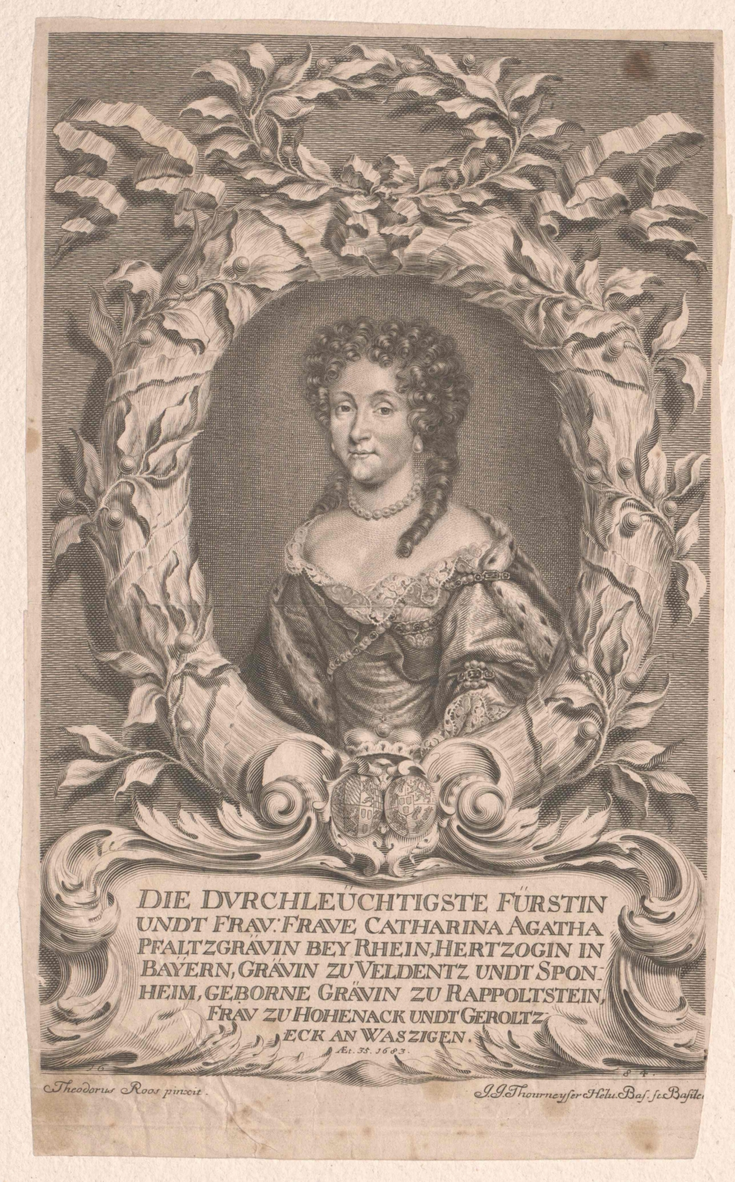 Portrait of Catherine Agatha of Rappoltstein (1648-1683), wife of Christian II, Count Palatine of Zweibrücken-Birkenfeld